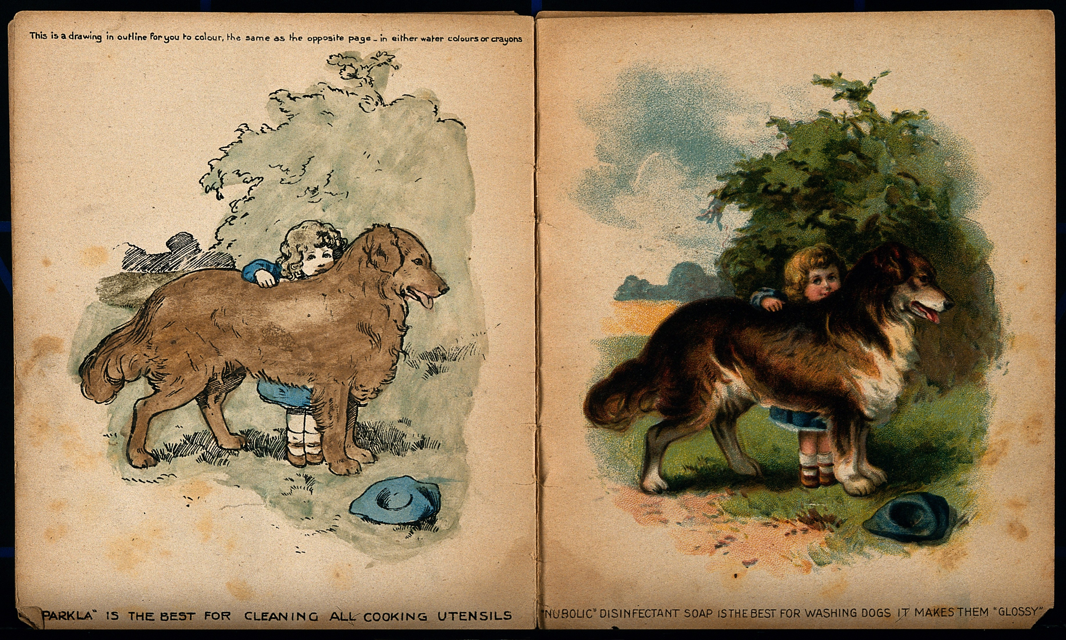 A colouring book picture of a little boy standing by his large dog Iconographic Collections Keywords: Sparkla.; W. H. Gunston; Joseph Watson & Sons, Ltd.; Nubolic.; Alice. Reeve